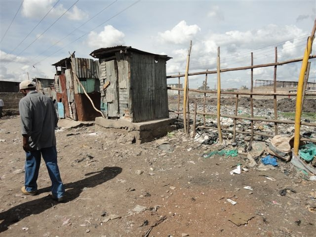 Photo by Sustainable Sanitation Design regional representative Emery Sindani - 4th Q 2010